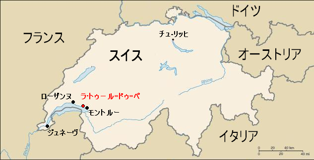 Map of La Tour-de-Peilz, Switzerland. Modified from the CIA's World Factbook map.